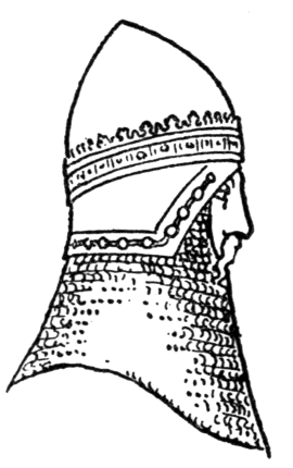 Fig. 577. "Bascinet" helmet.